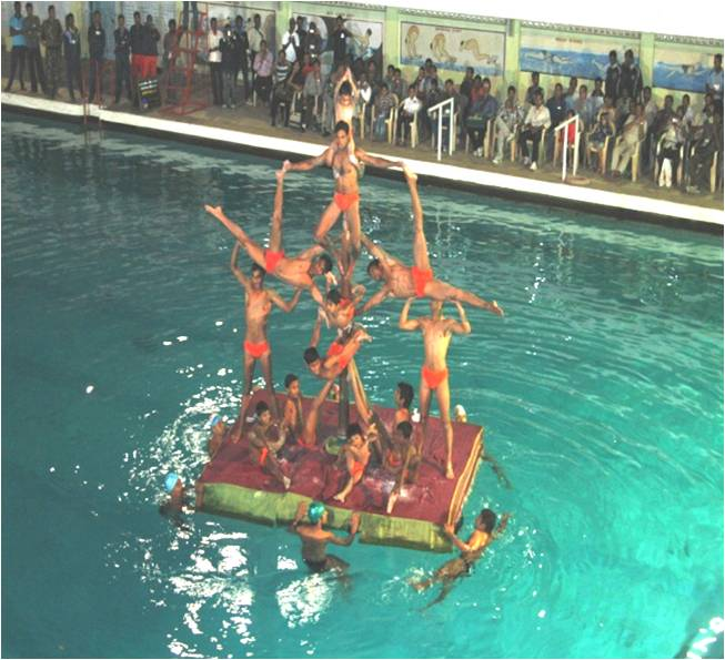 mallakhamb in swimming pool